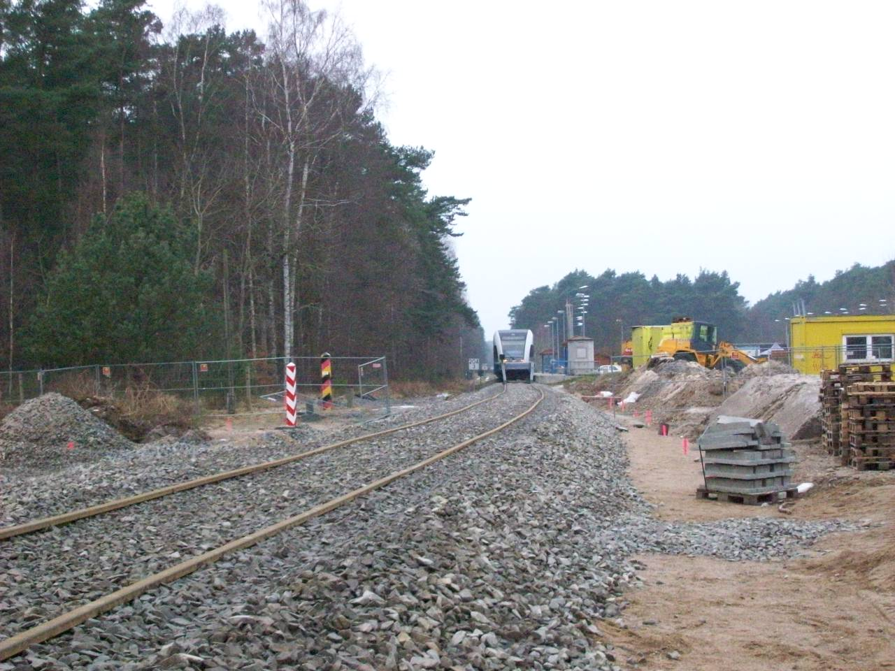 construction of route from Ahlbeck Grenze to Świnoujście Centrum looking from Poland into Germany